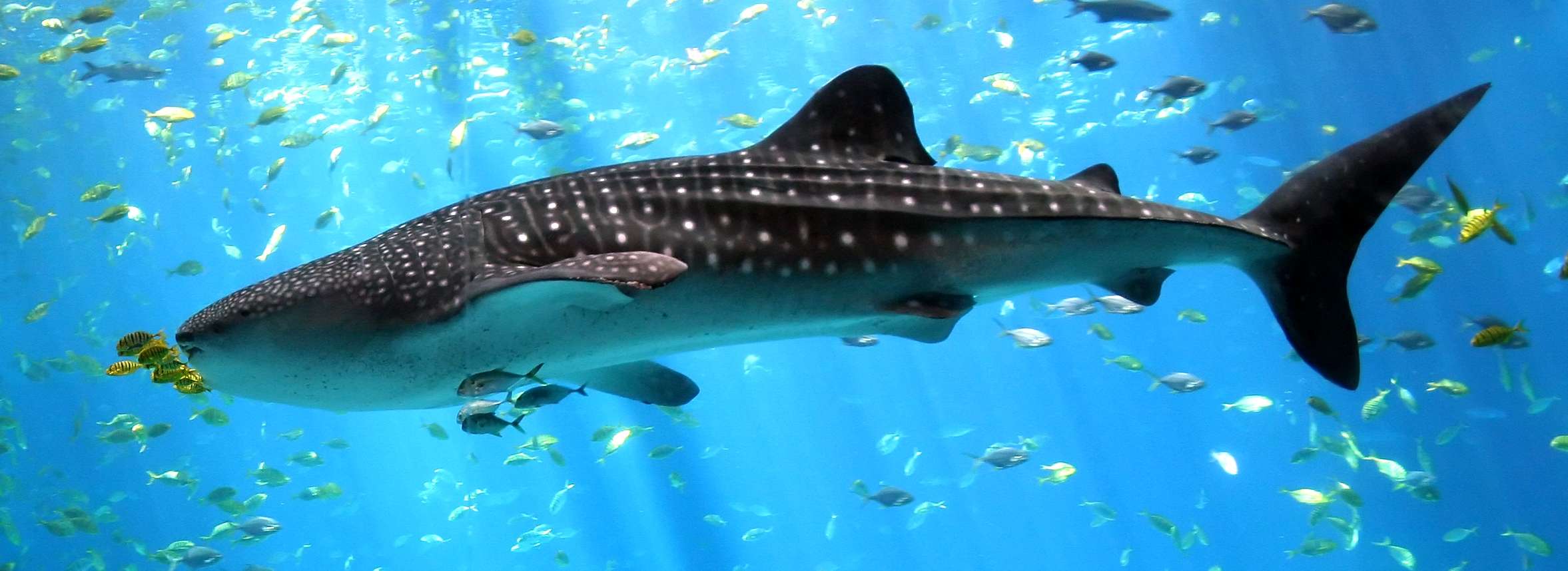 Cropped and enhanced version of IMG 1023.JPG in commons